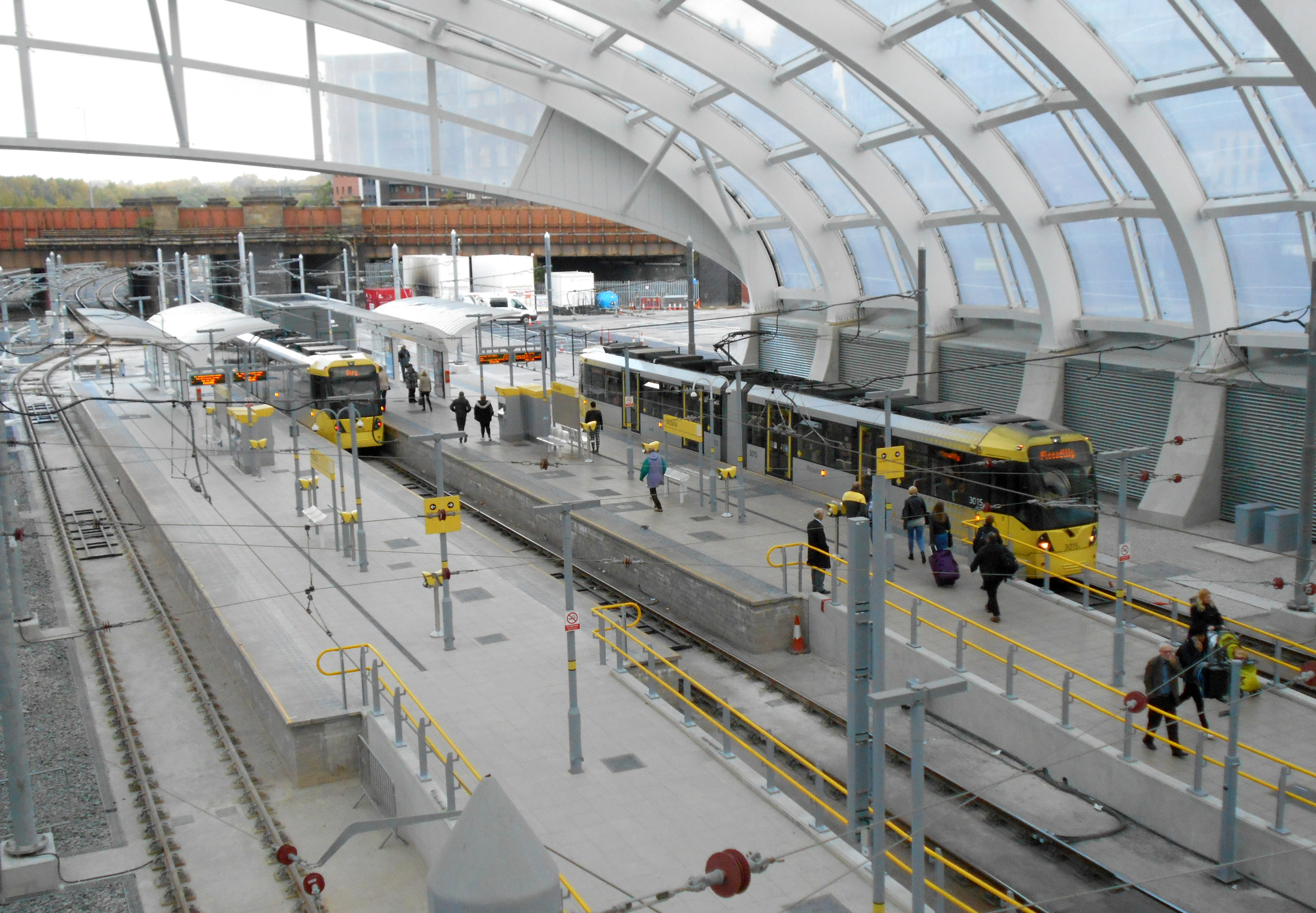 Newly rebuilt Metrolink platforms at Manchester Victoria.